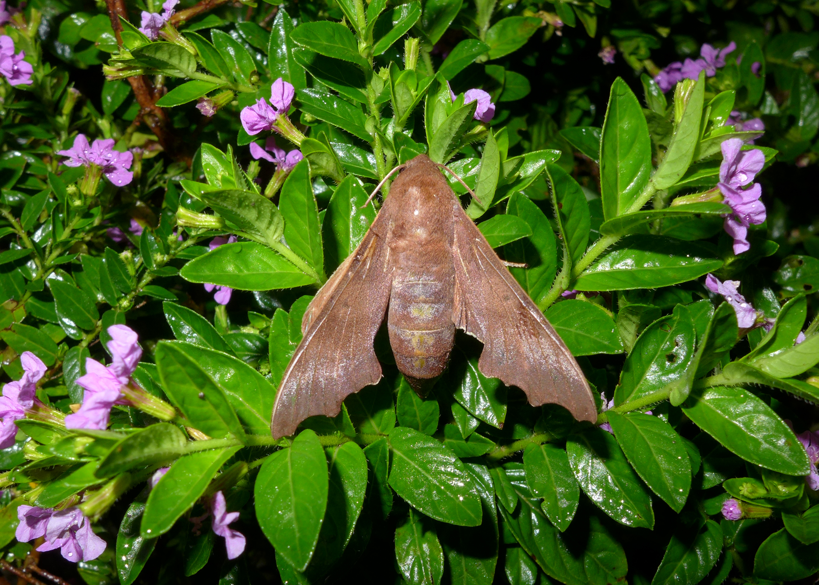 Cypa decolor decolor (Vietnam, Lam Dong, near Da Lat,) (Cuong Do)